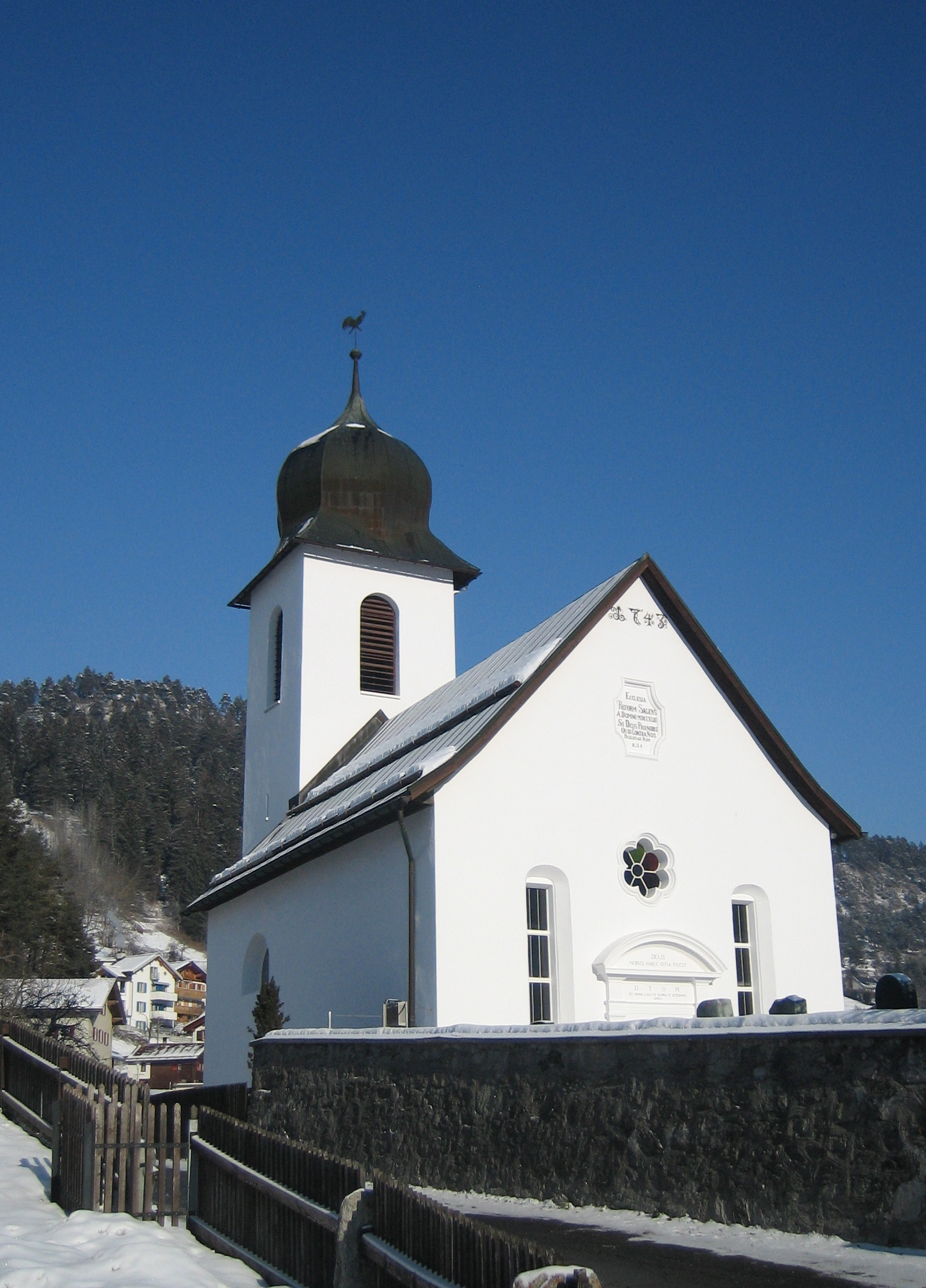 reformierte Kirche Sagogn